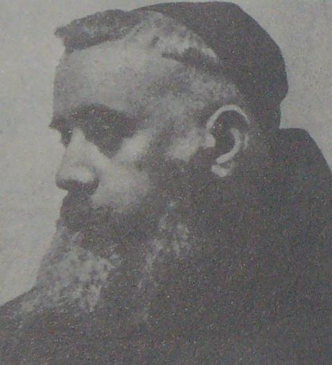 Josep de Calassanç Vives i Tutó, O.F.M.Cap. (Sant Andreu de Llavaneres, 1854 - Monteporzio, Roma, 1913) was a Catalan cardinal.